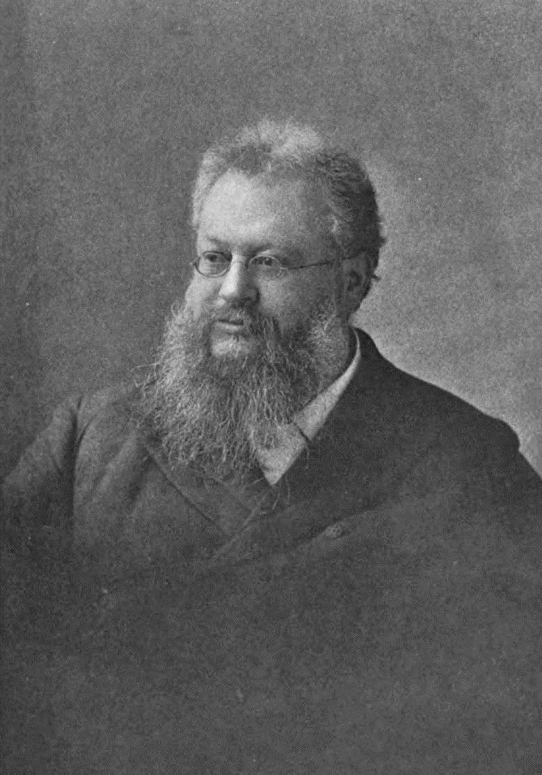 John Fiske.